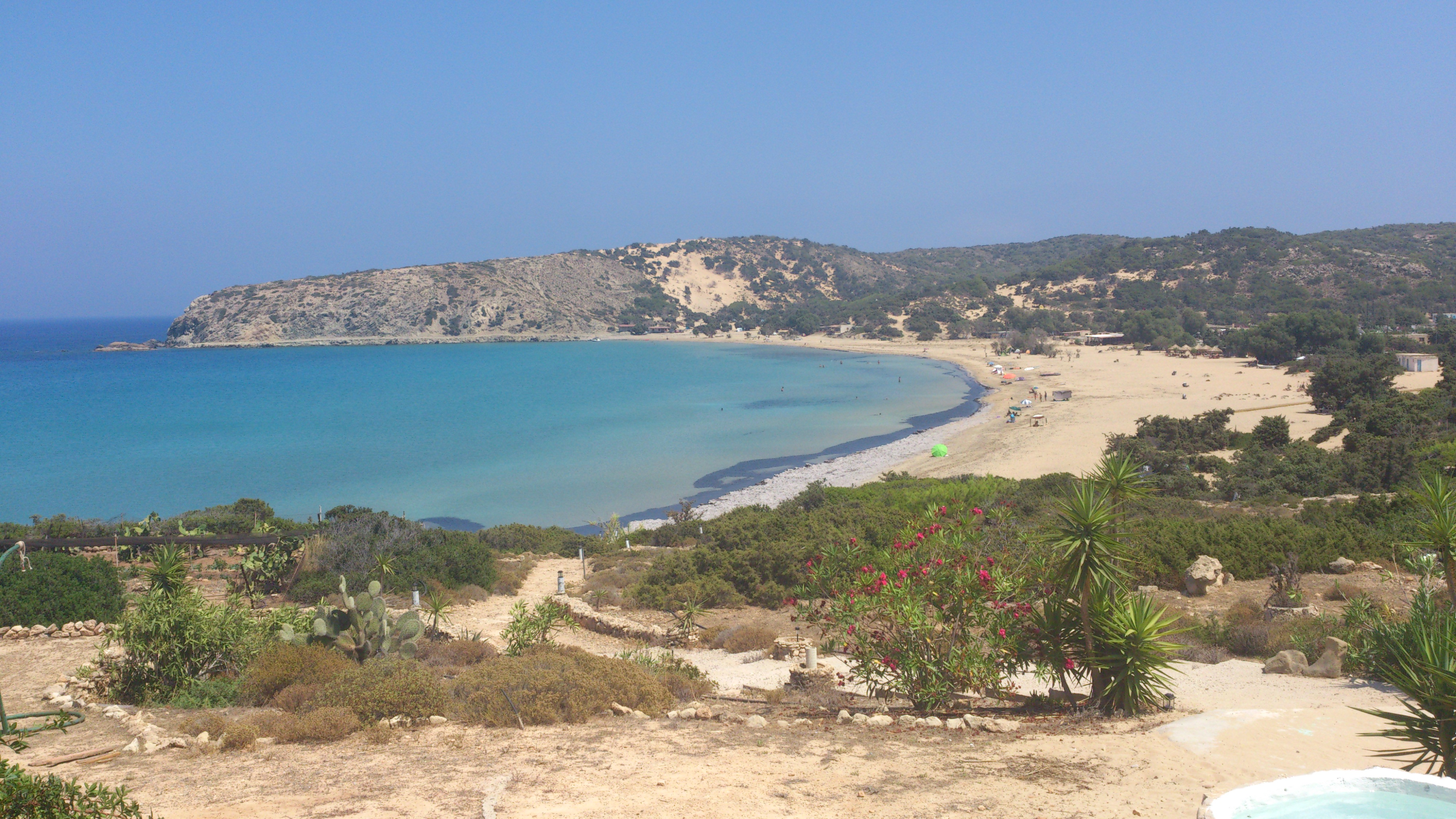 This is a photography of Natura 2000 protected area with ID GR4340013